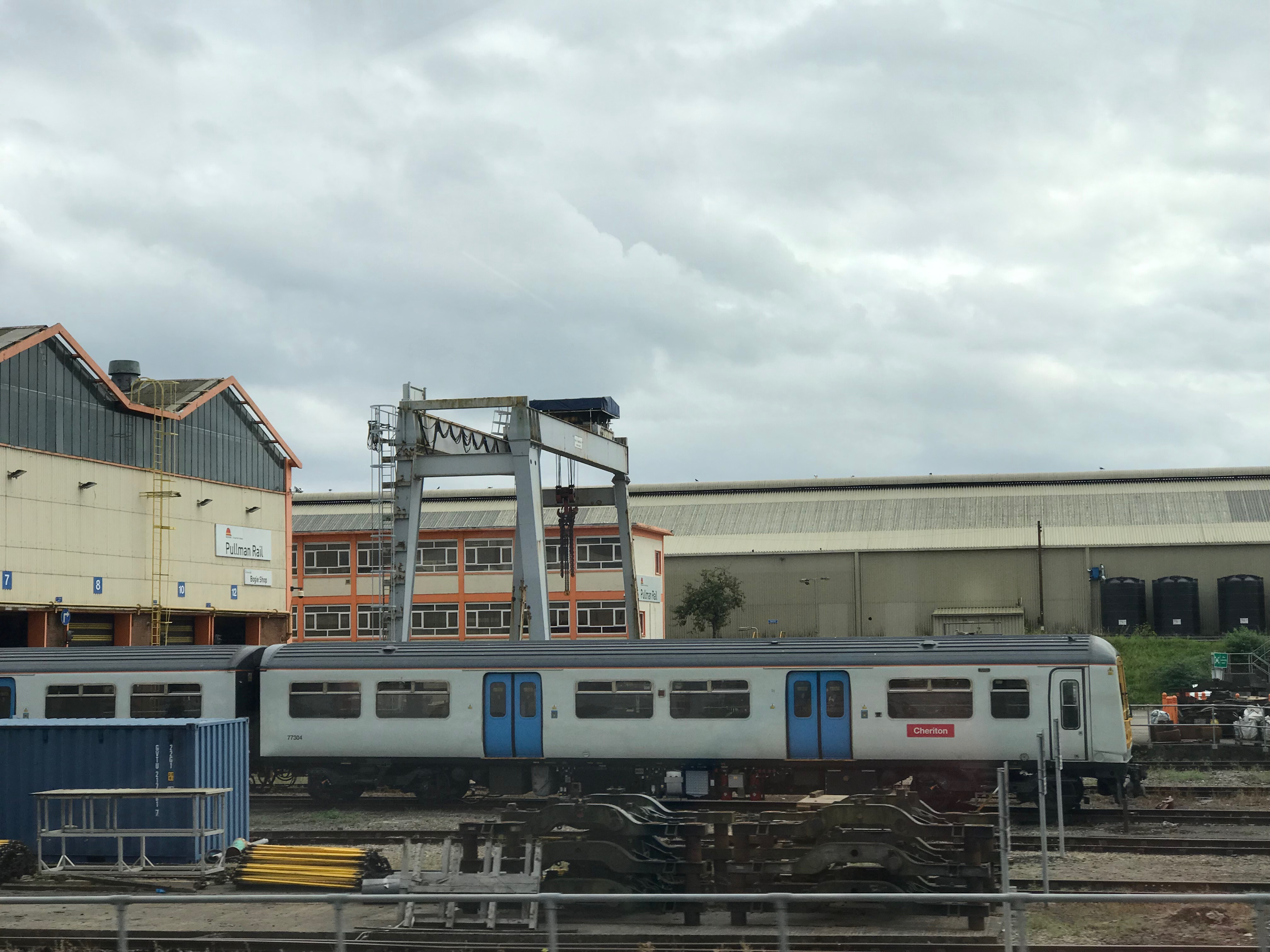 Former Class 319 Cheriton (unit 319008), destined to be a British Rail Class 769 at Cardiff Canton Depot. Awaiting final modifications before entering service with Transport for Wales Rail Services. 319008 was famously one of the first public-carrying passenger trains through Channel Tunnel on 7 May 1994, first operating as "Tunnel Explorer" excursions from Sandling railway station.